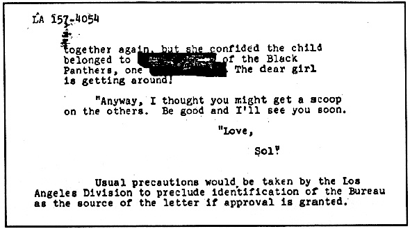 Exchange of information between FBI HQ and FBI Los Angelese, in plans to defame Jean Seberg.